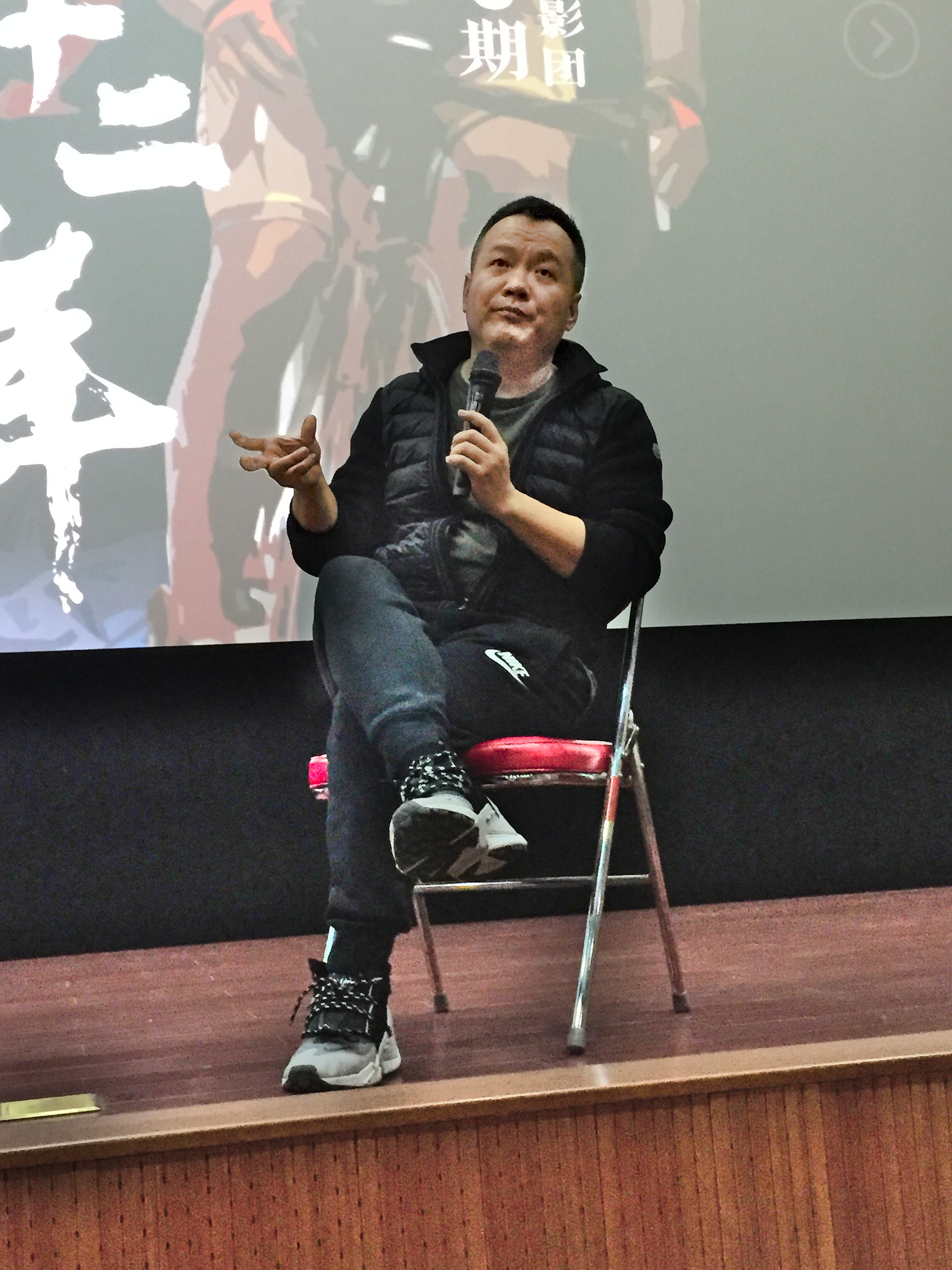 Ning Hao at the post-screening Q&A session of Crazy Stone and Crazy Racer on Jan 29, 2019.